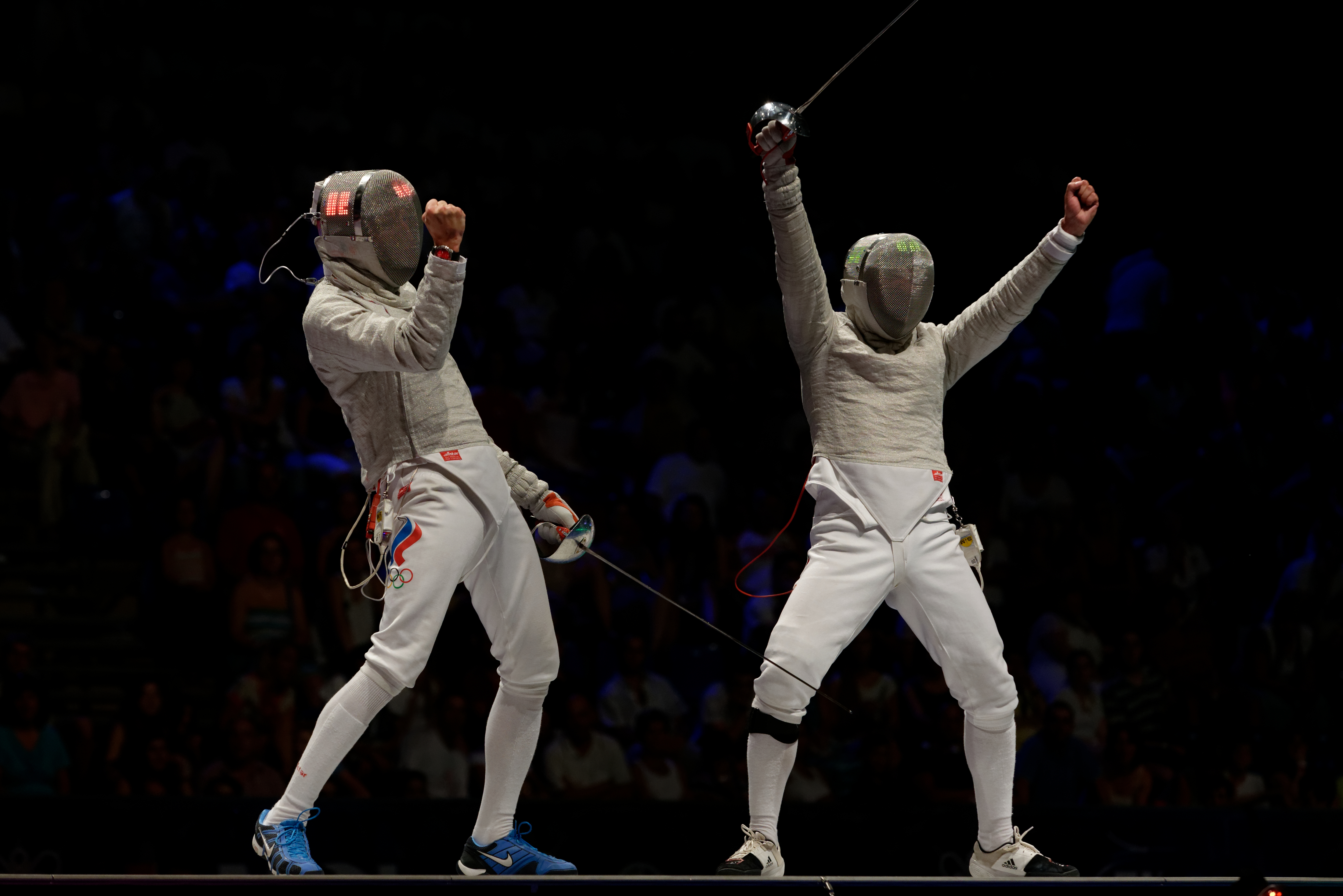 Russia's Veniamin Reshetnikov (L) and his fellow countryman Nikolay Kovalev (R) both claim a hit in the final of the men's sabre event in the 2013 World Fencing Championships 2013 at Syma Hall in Budapest, 10 August 2013.